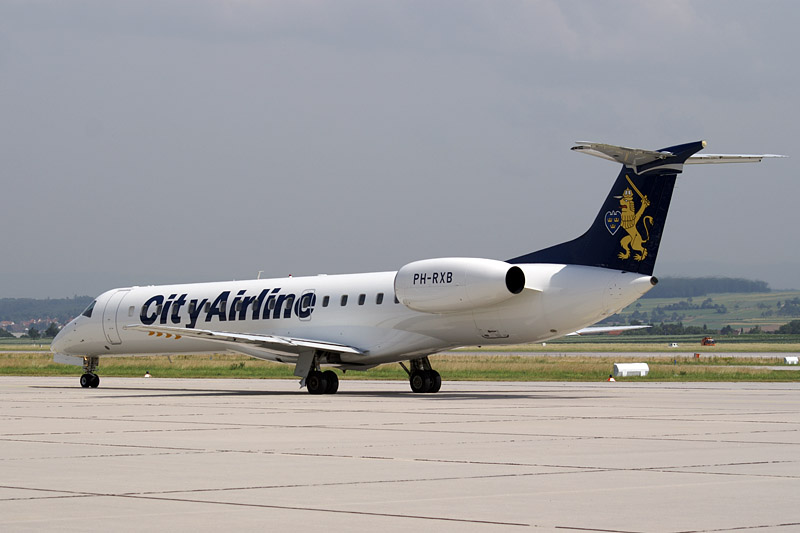 City Airline Embraer ERJ-145MP PH-RXB